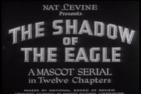 The Shadow of the Eagle, a 1932 serial directed by Ford Beebe and B. Reeves Eason, with John Wayne.